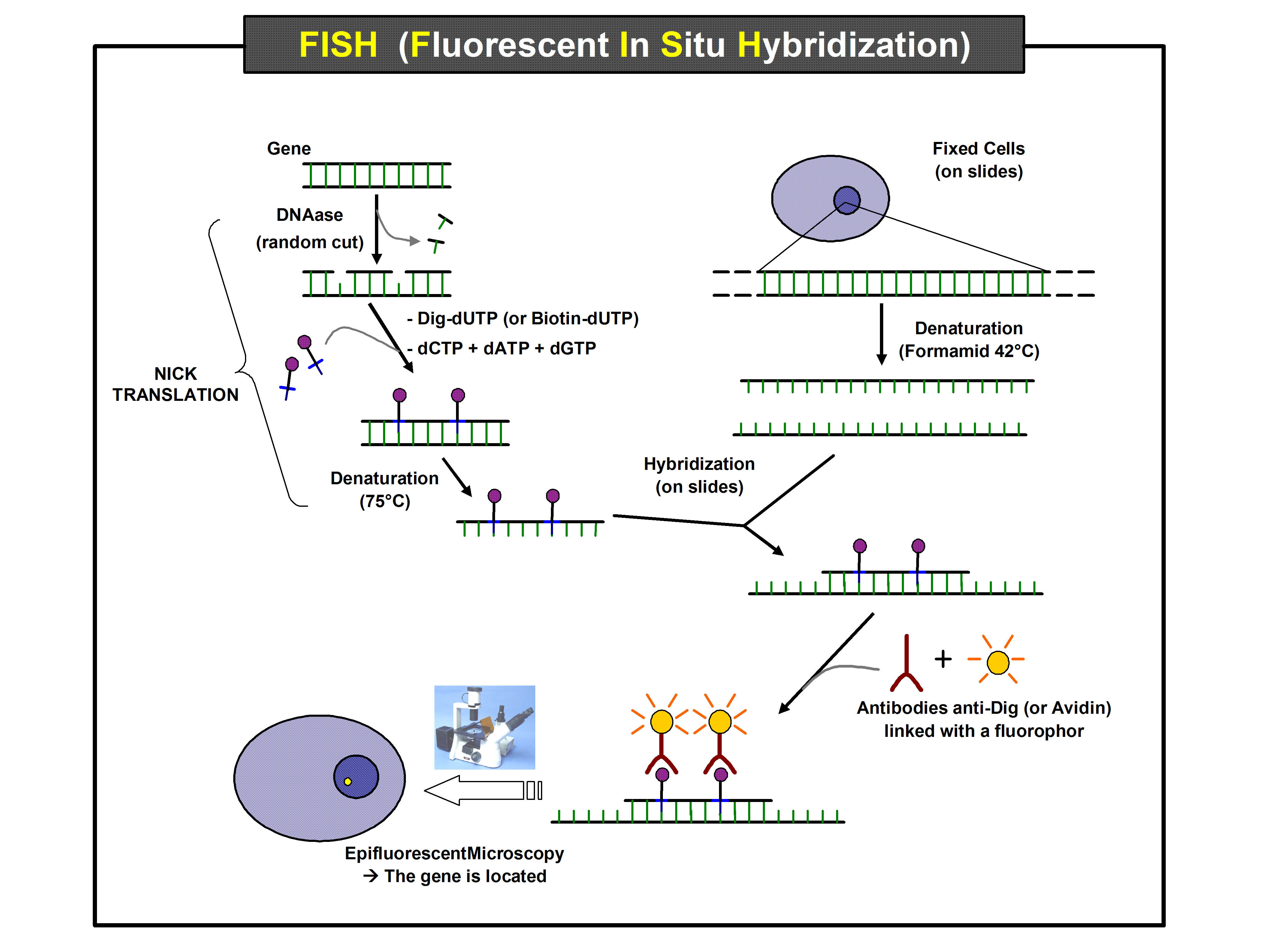 Scheme of the principle of the FISH (Fluorescent in situ hybridization) Experiment to localize a gene in the nucleus.